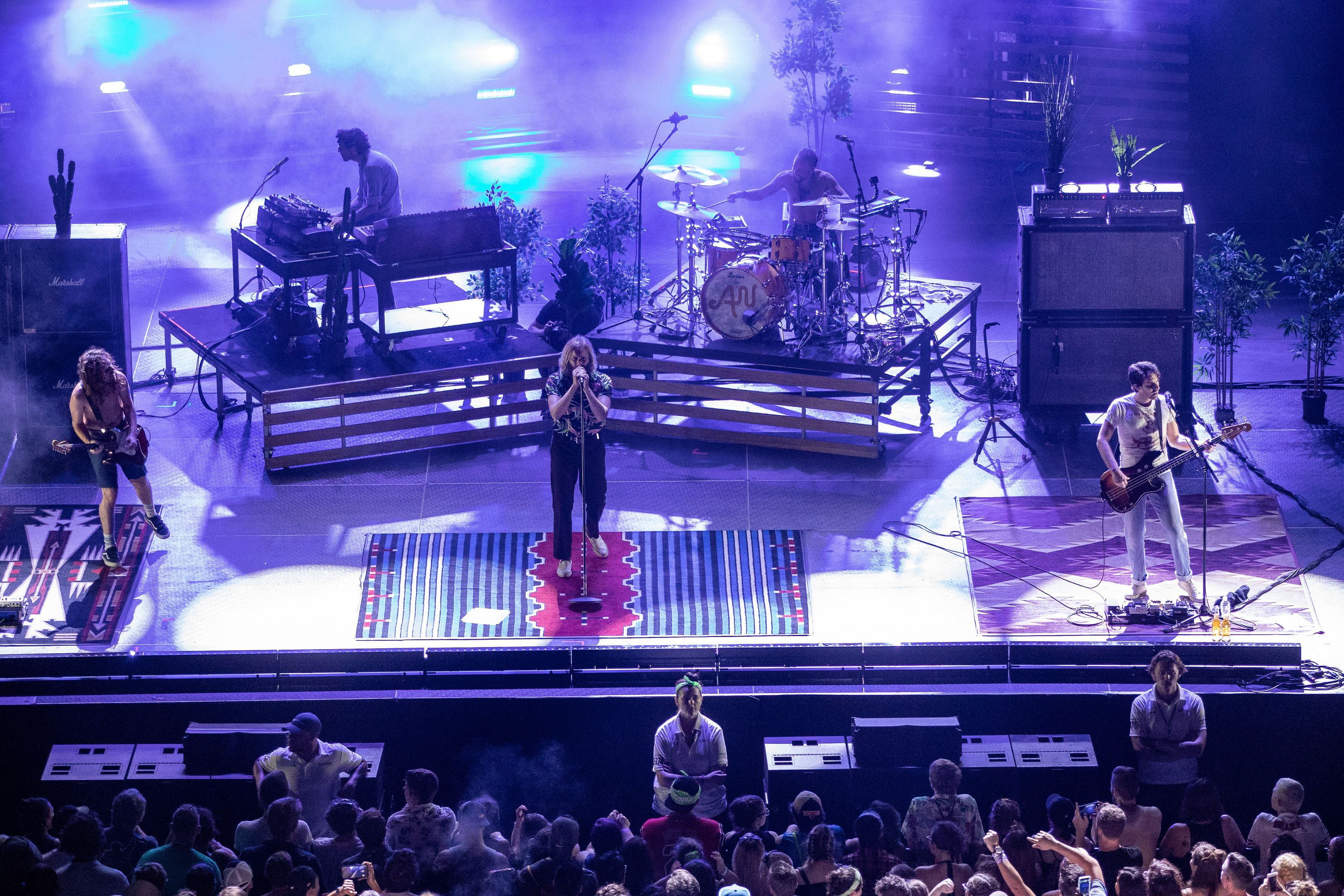 Awolnation at Piqniq 2018 in Tinley Park, IL, USA.